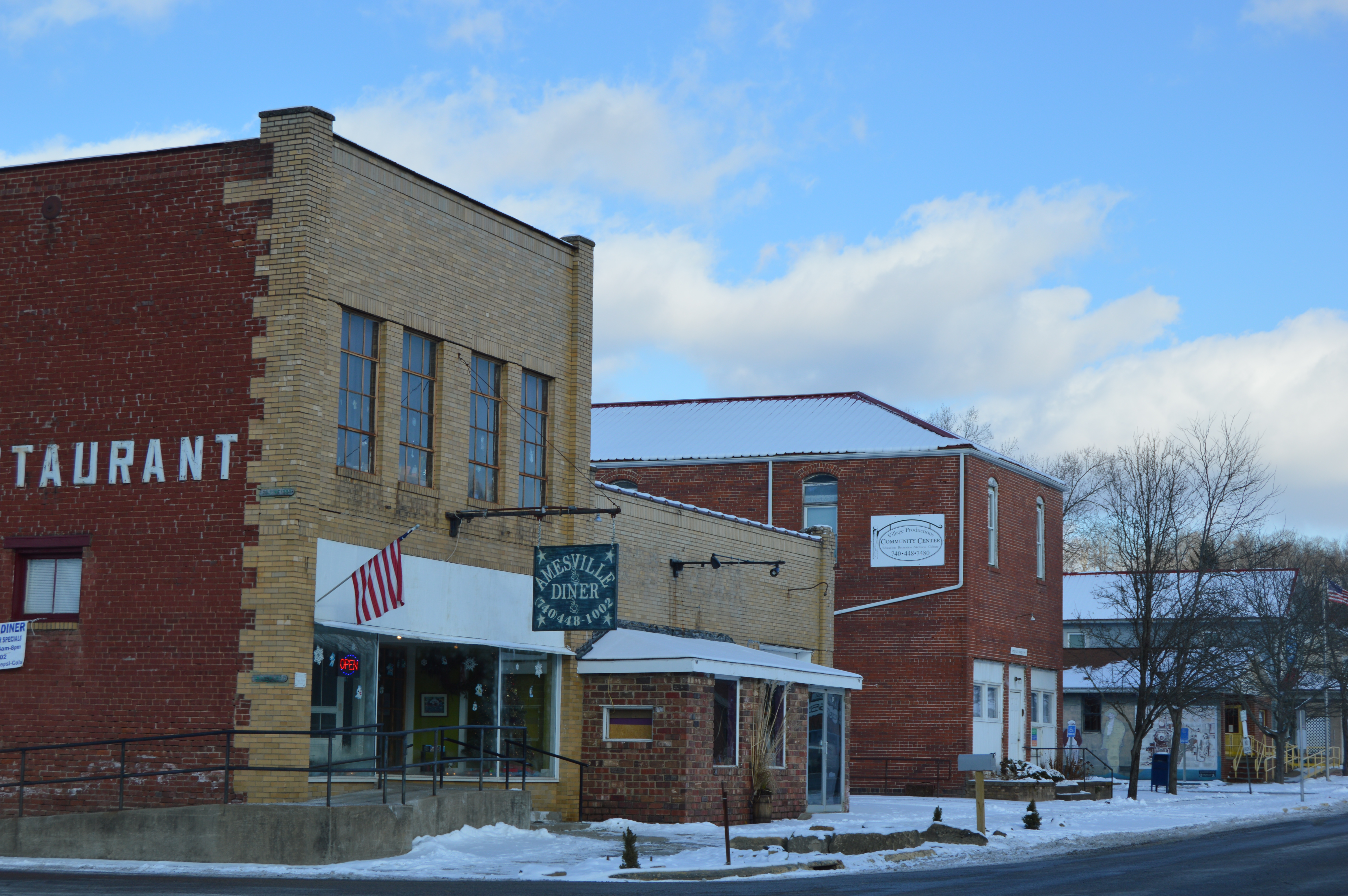 Buildings on State Street (State Routes 329/550) at the Main Street intersection in Amesville, Ohio, United States.